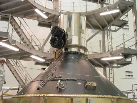 Demosat of the first Delta-IV-heavy rocket with two 3CSat nanosats attached